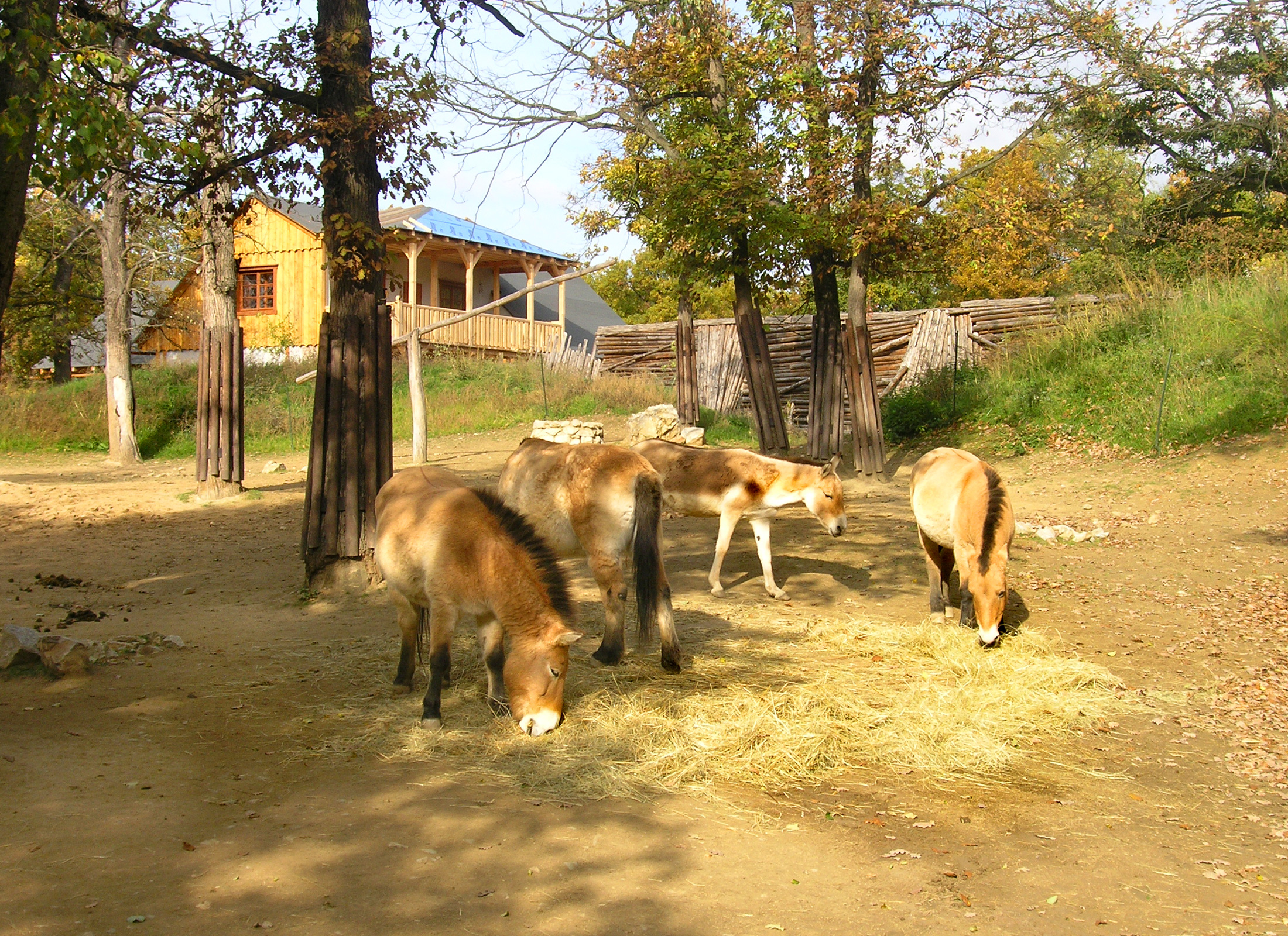 Przewalski horses and Turkmenian Kulan in Zoo Brno, Czech Republic